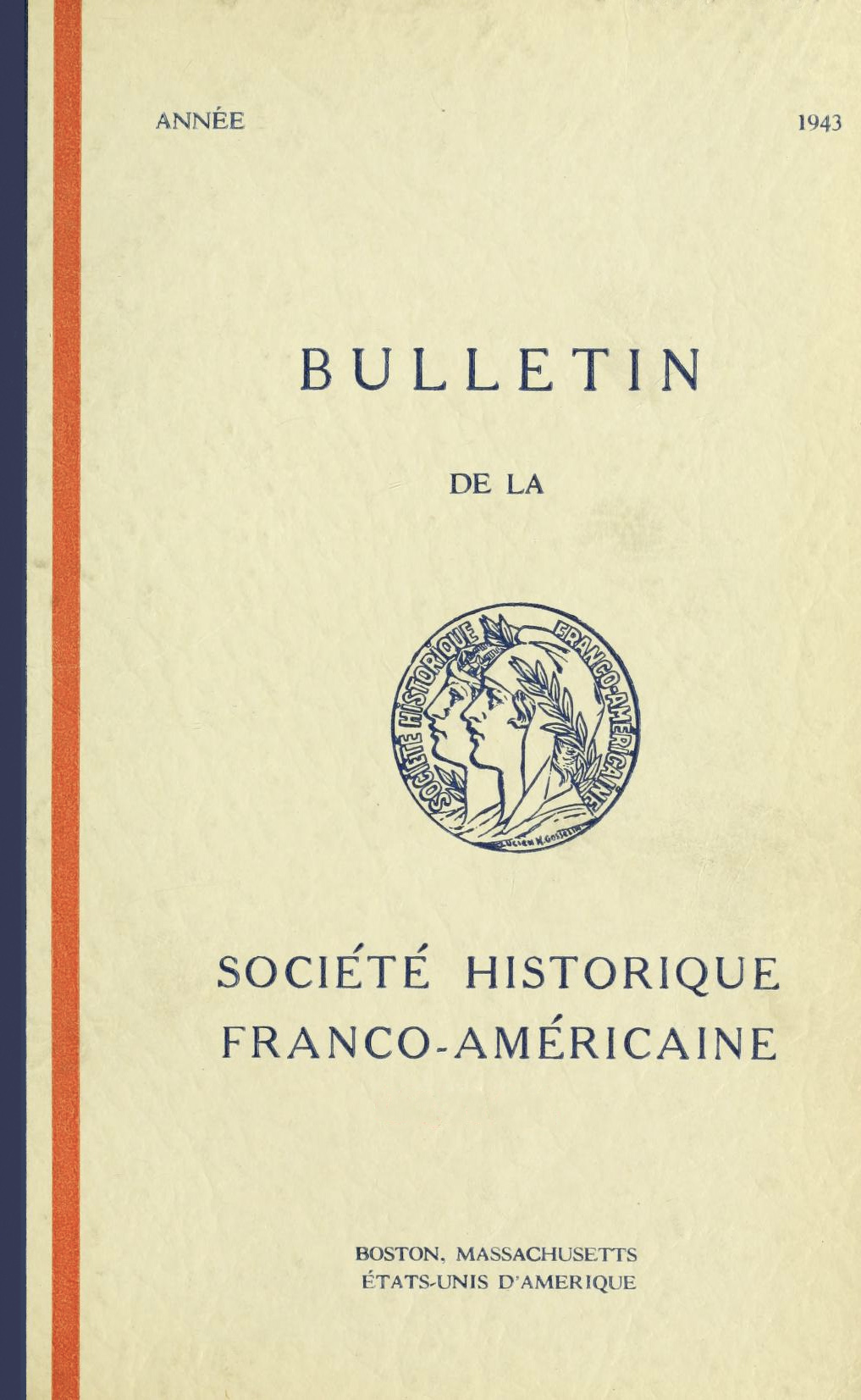 Cover for the Bulletin of the Société Historique Franco-Américaine, covering one of its banquets in Boston.